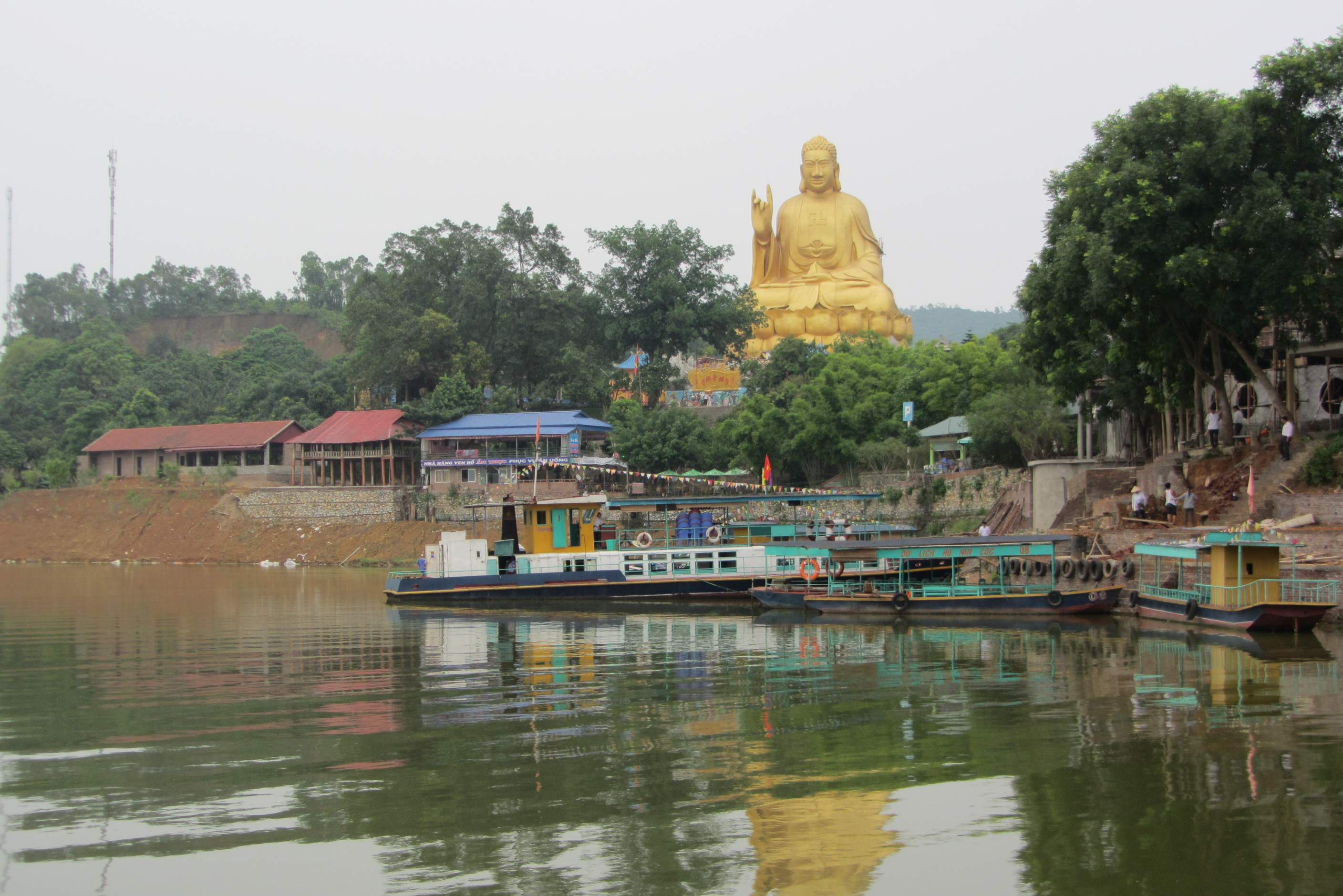 Giant Buddha statue and tourboats at Nui Coc Lake, Thai Nguyen Province, Vietnam